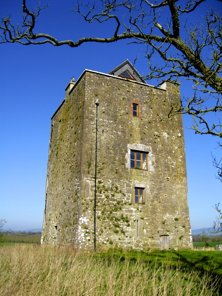 The west face of Killahara, also known as a tower house.